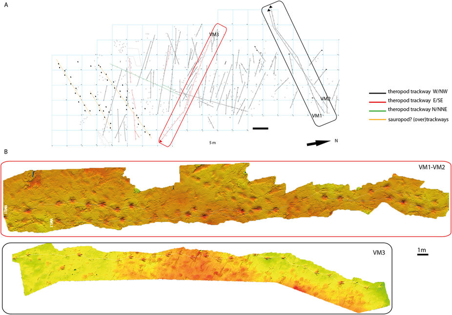 Figure 3 : Cartography of the Vale de Meios site and photogrammetric models of three analysed trackways. (A) 2-D cartography of the Vale de Meios site, trackways directions indicated in the legend with different colours (black, red, green and orange). (B) 3-D photogrammetry models undertaken for three analysed trackways VM1, VM2 and VM3